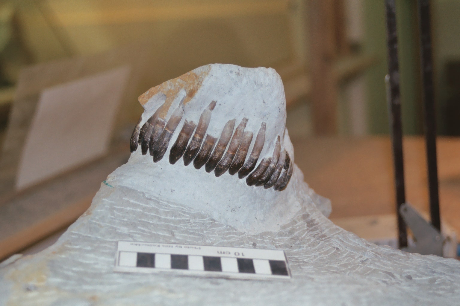 Row of teeth of Europasaurus holgeri.